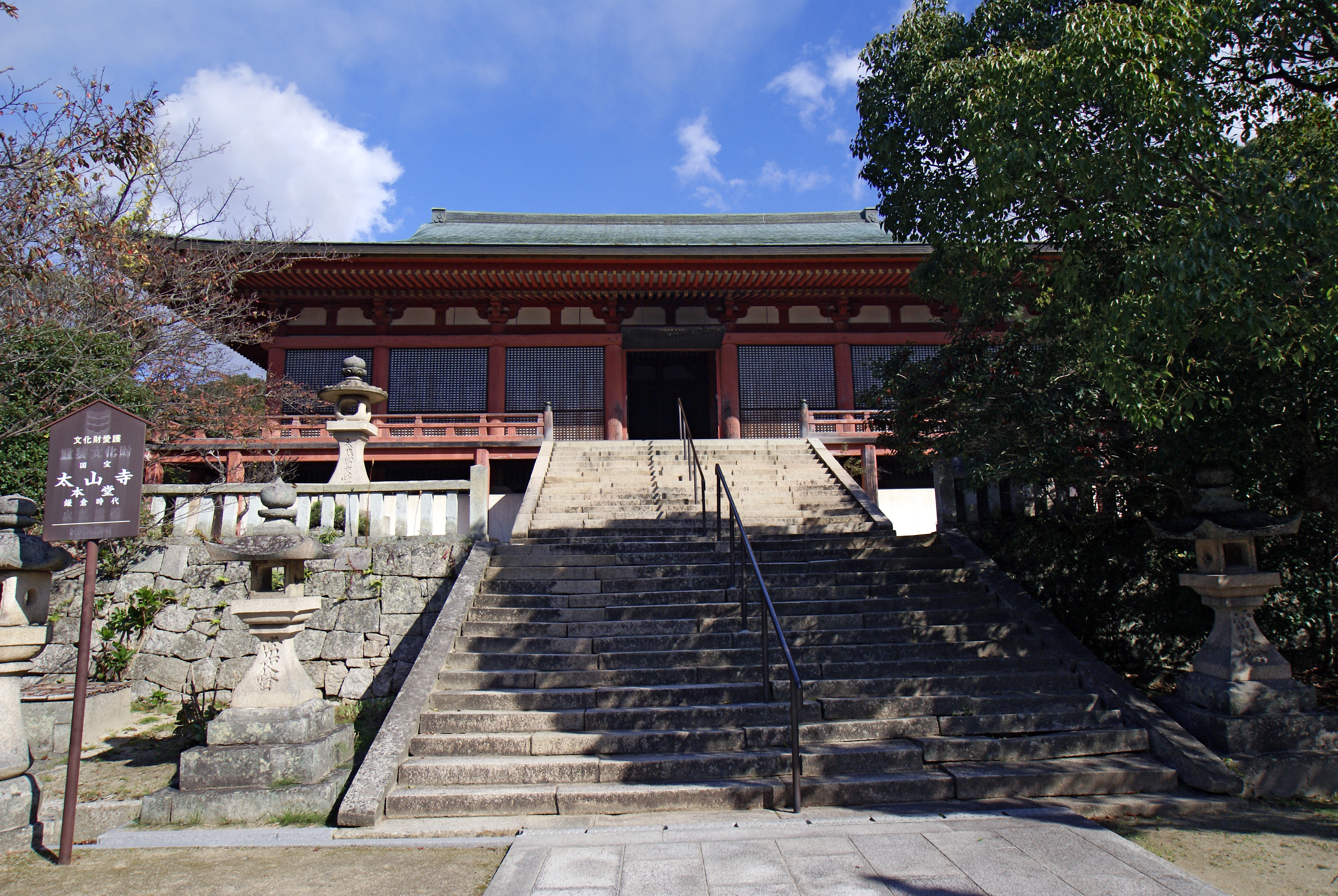 Taisanji Buddhist temple in Kobe, Hyogo prefecture, Japan Opening in 716. This photograph is the Hondo (Japan's National Treasure). It was built in 1293.